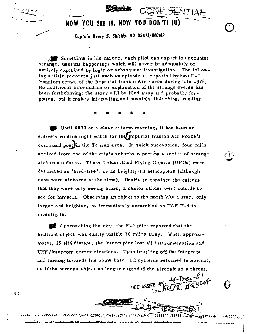 Air Force files on the Tehran UFO incident in 1976 (page 1).